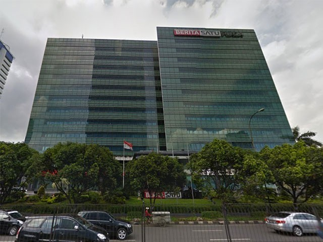 BeritaSatu Plaza